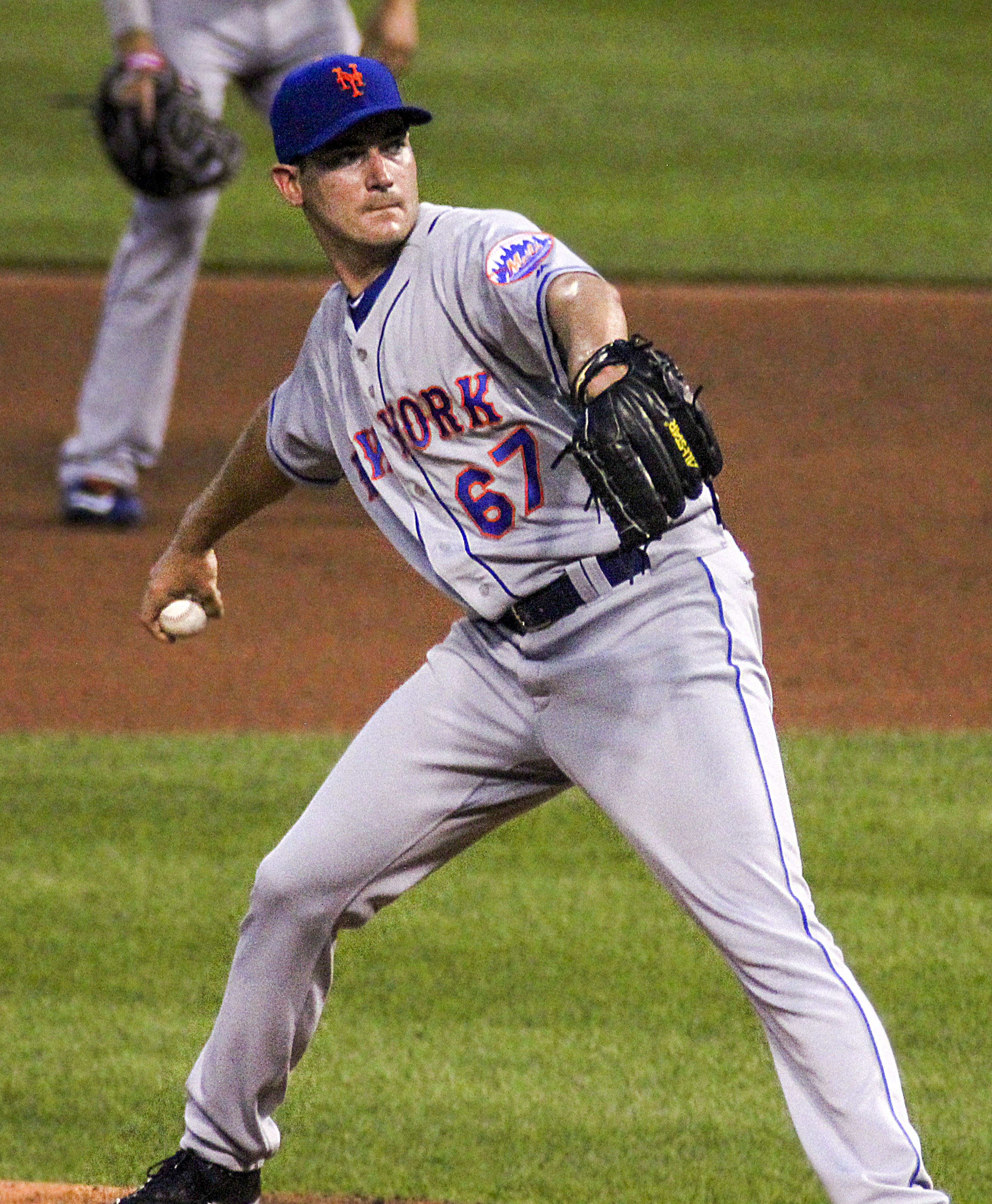 Seth Lugo of the New York Mets.